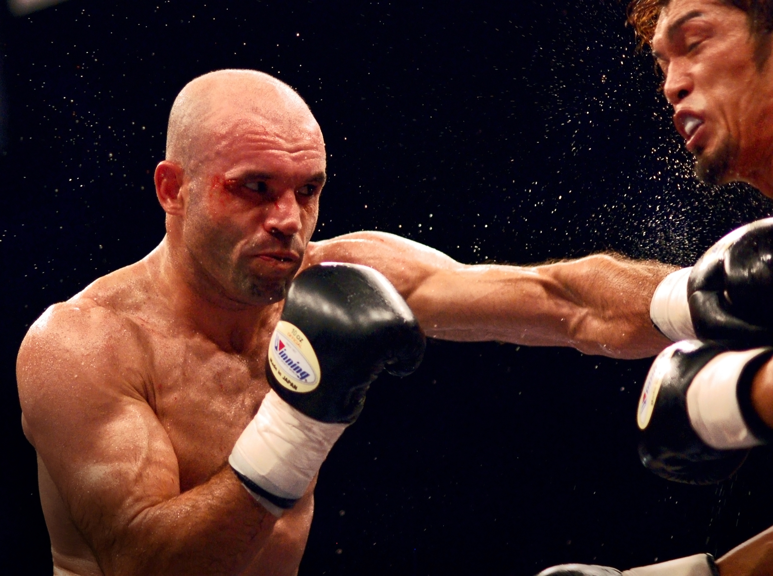 Nobuhiro Ishida vs. Rigoberto Álvarez (on the left) at the Mesón de los Deportes in Tepic, Nayarit, Mexico on October 9, 2010.